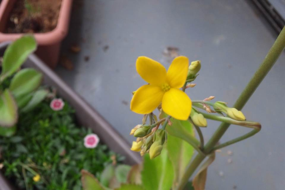 This picture is Ryukyu Benkei flower.